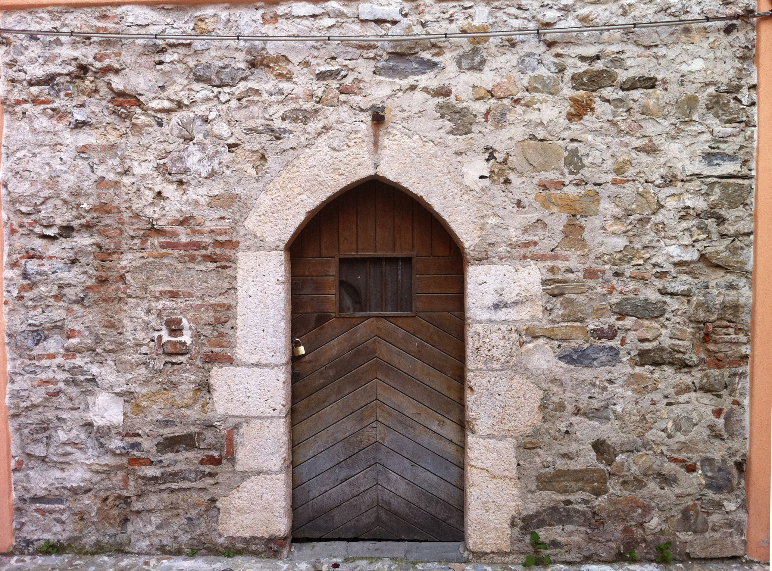 Old doors in historic centre of Albenga